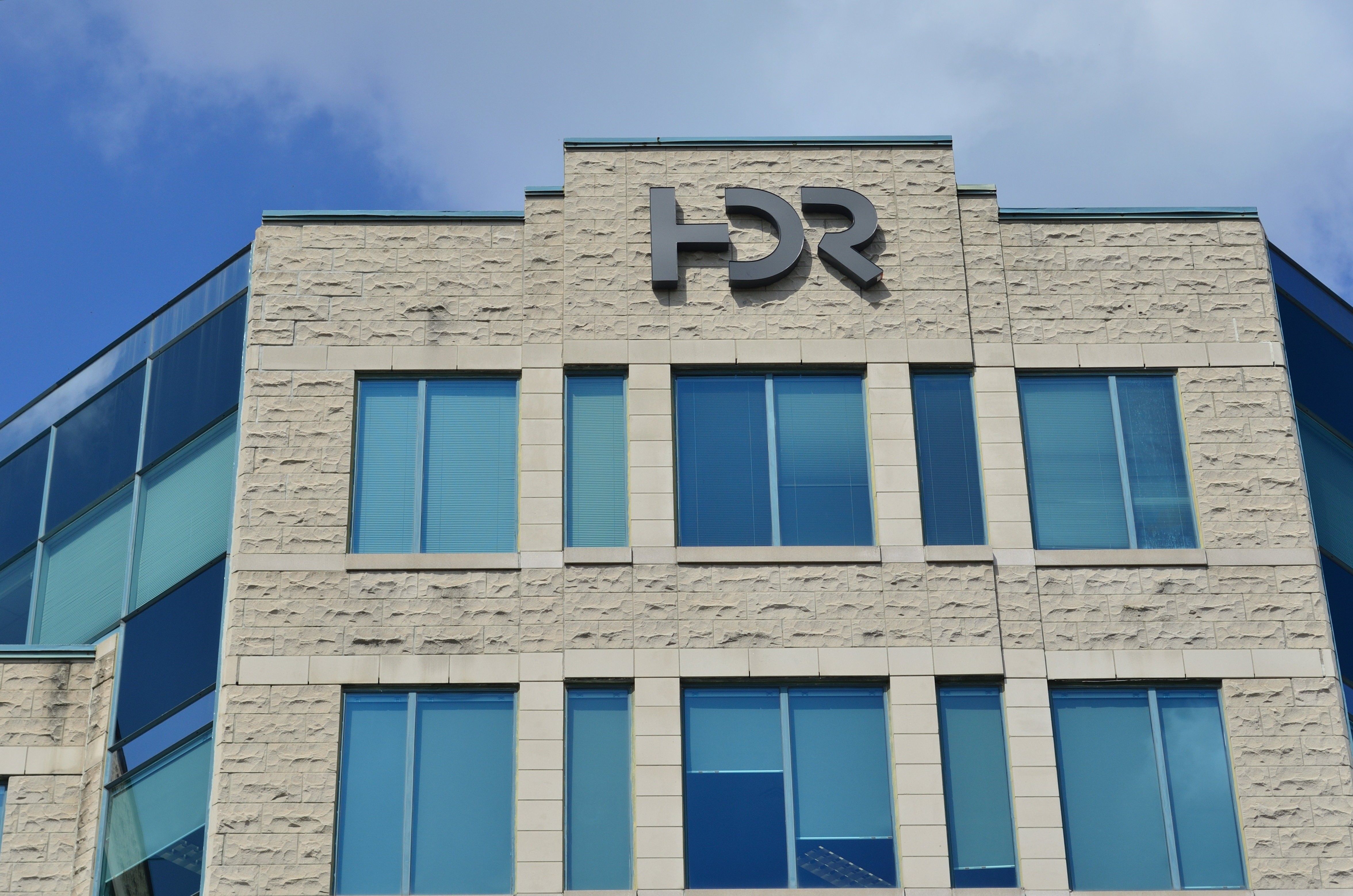 HDR, Inc. at Richmond Hill, Ontario. Address: 100 York Boulevard, Suite 300, Richmond Hill, ON L4B 1J8 Canada